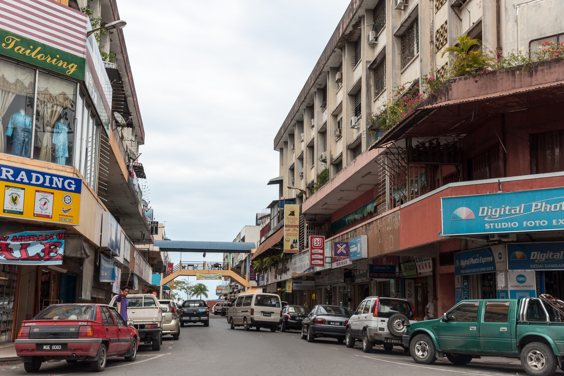 Lahad Datu, Sabah: Street near town center